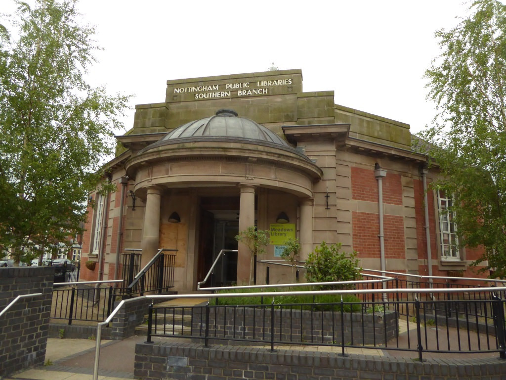 One of 2 branch libraries built in Nottingham which were funded by the Carnegie Trust. This is Meadows branch (also Southern Branch), and it was opened in 1925. The library has an active Friends Group, who maintain the garden, and on the day I visited had arranged for a magician to visit, who was entertaining a large group of children (and parents). Visited by a member of the Libraries Taskforce team. Photo credit: Julia Chandler/Libraries Taskforce